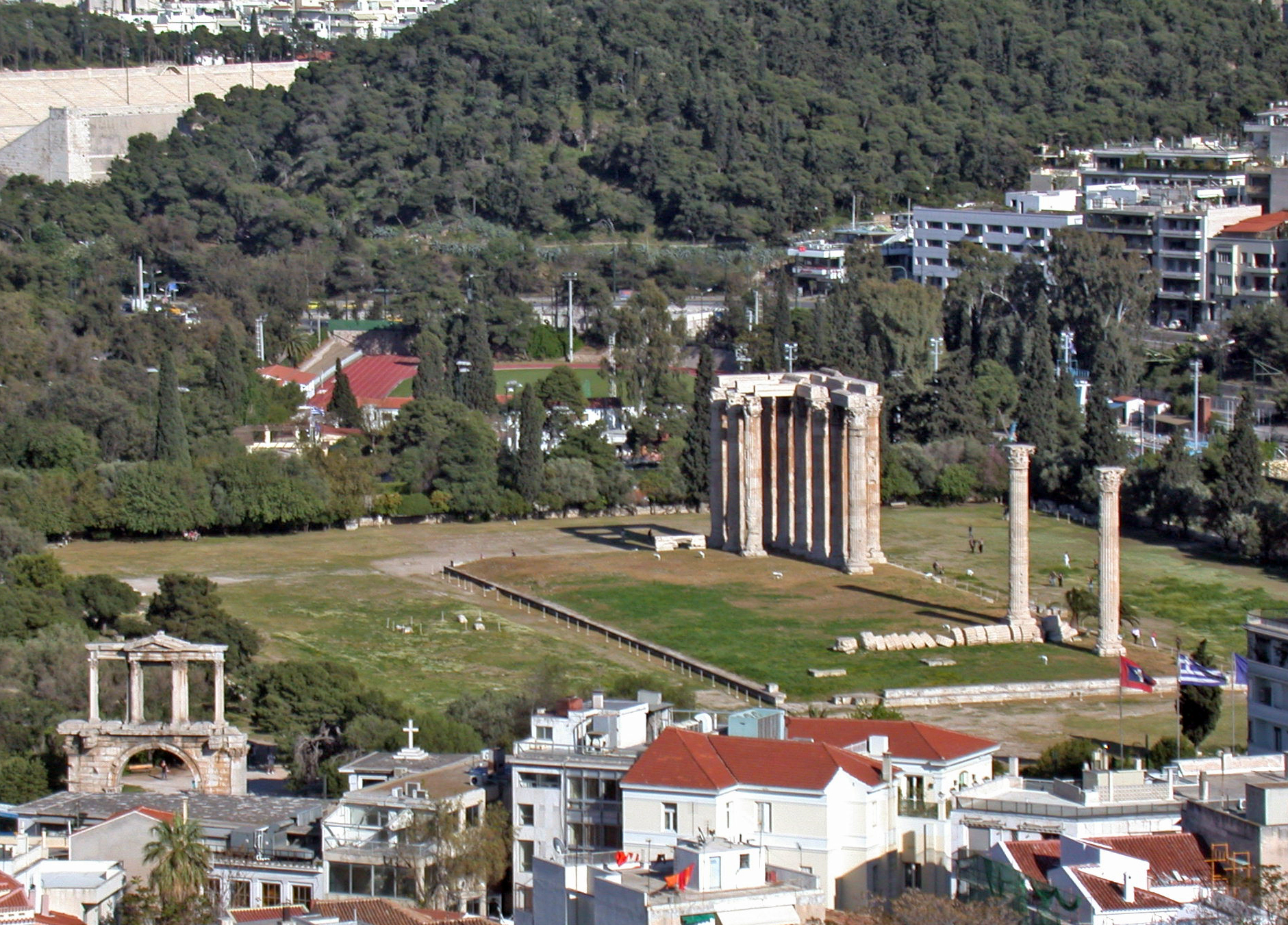 Greece, Athens, Temple of Olympic Zeus and Hadrian's Gate seen from the Acropolis